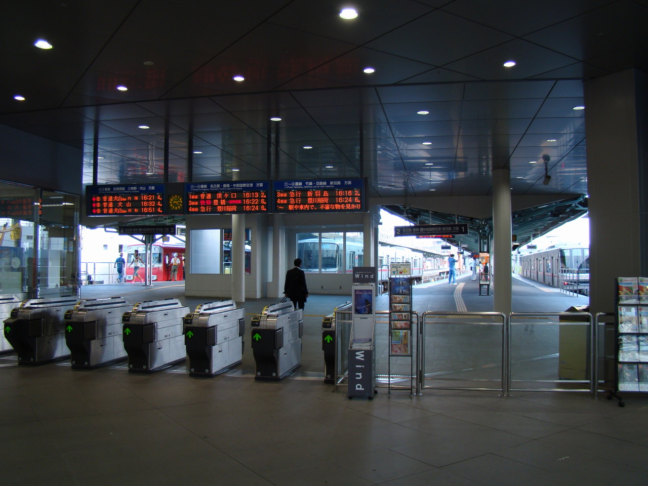 Meitetsu-Gifu station main gate Gifu Japan